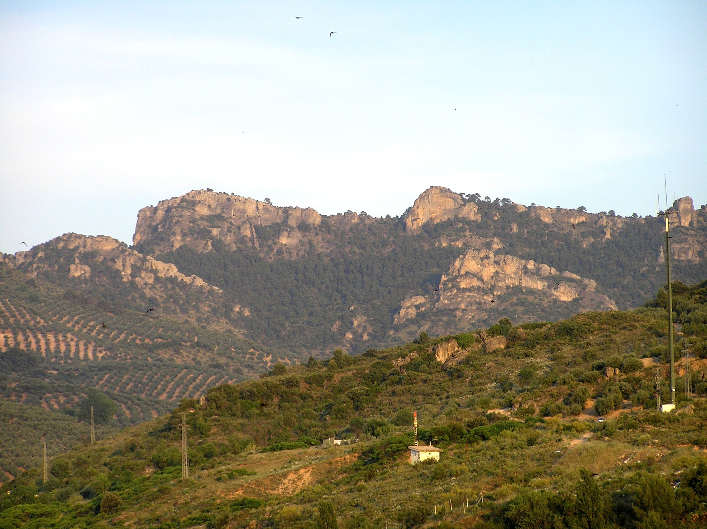 Natao